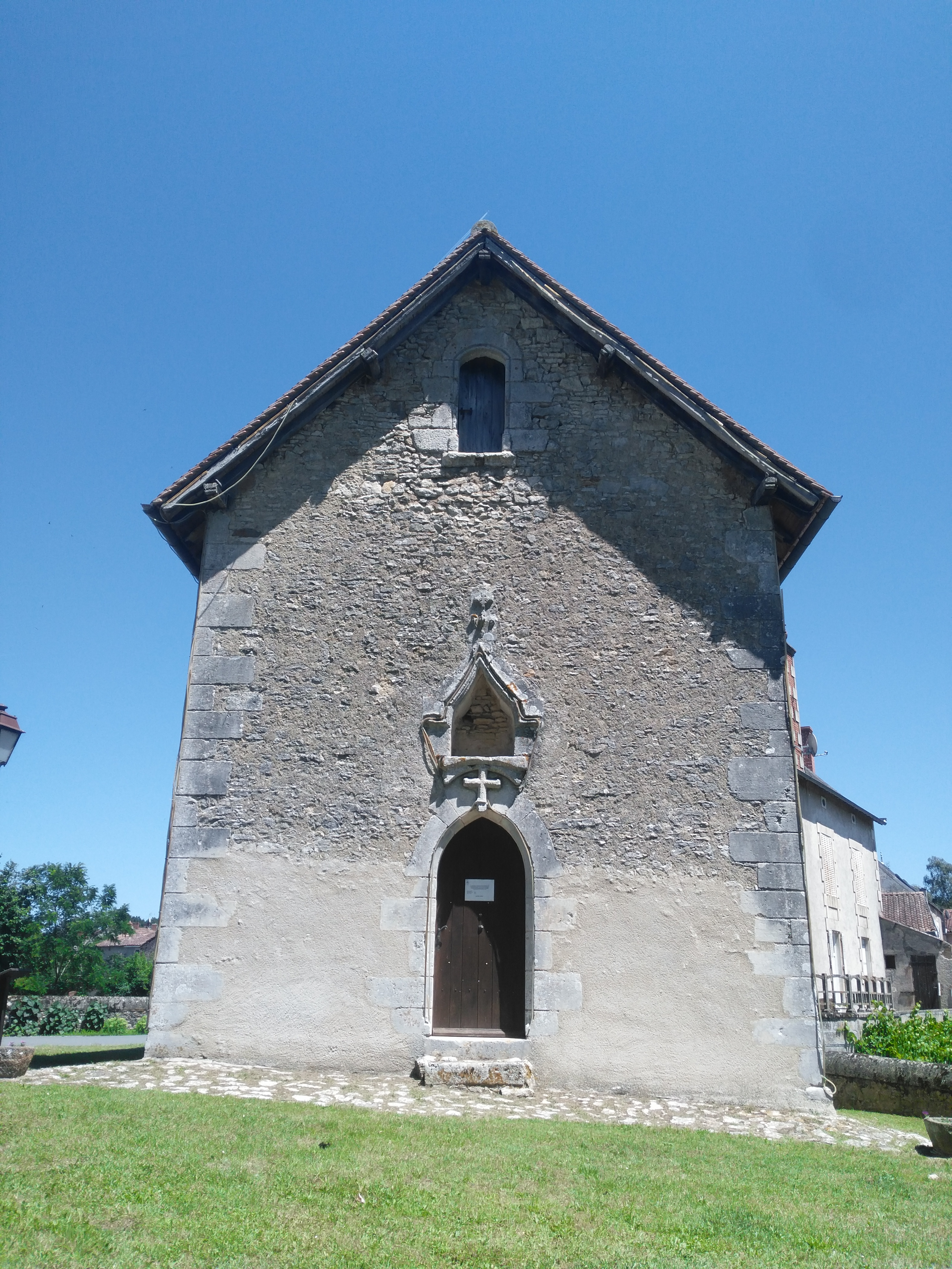 Exterior of funerary at Jouhet